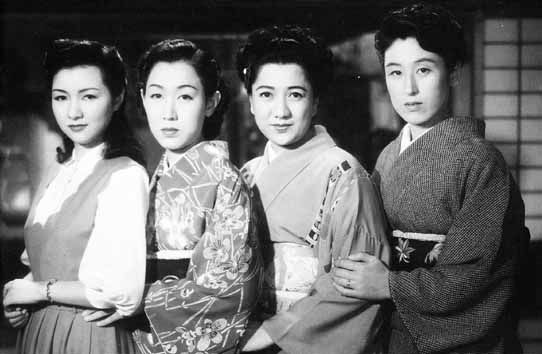 From left to right : Hideko Takamine, Hisako Yamane, Yukiko Todoroki and Ranko Hanai in Sasameyuki (細雪) directed by Yutaka Abe - 1950